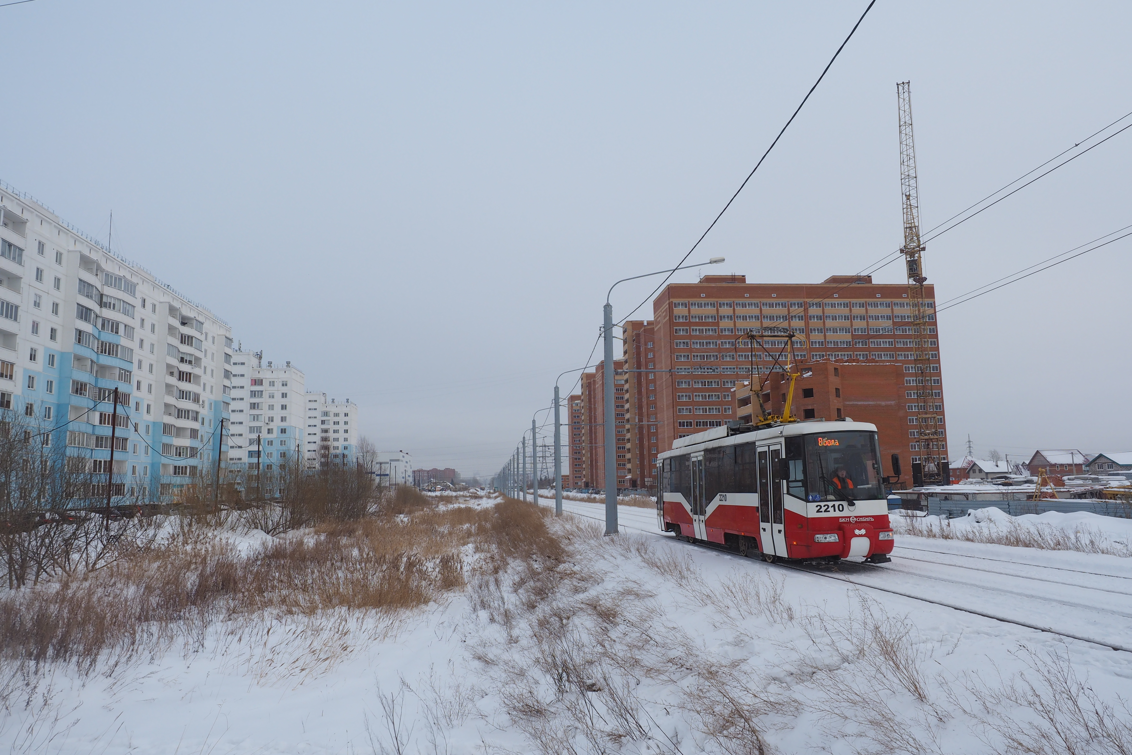 Novosibirsk tram